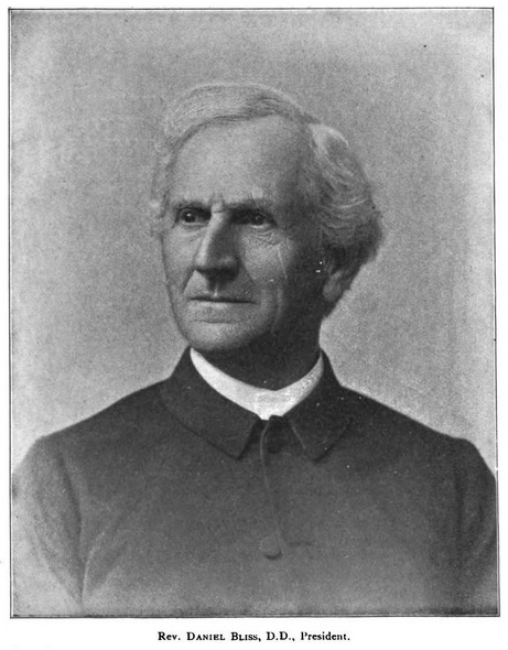 Rev Daniel Bliss, founder of the Syrian Protestant college, Beirût, Syria